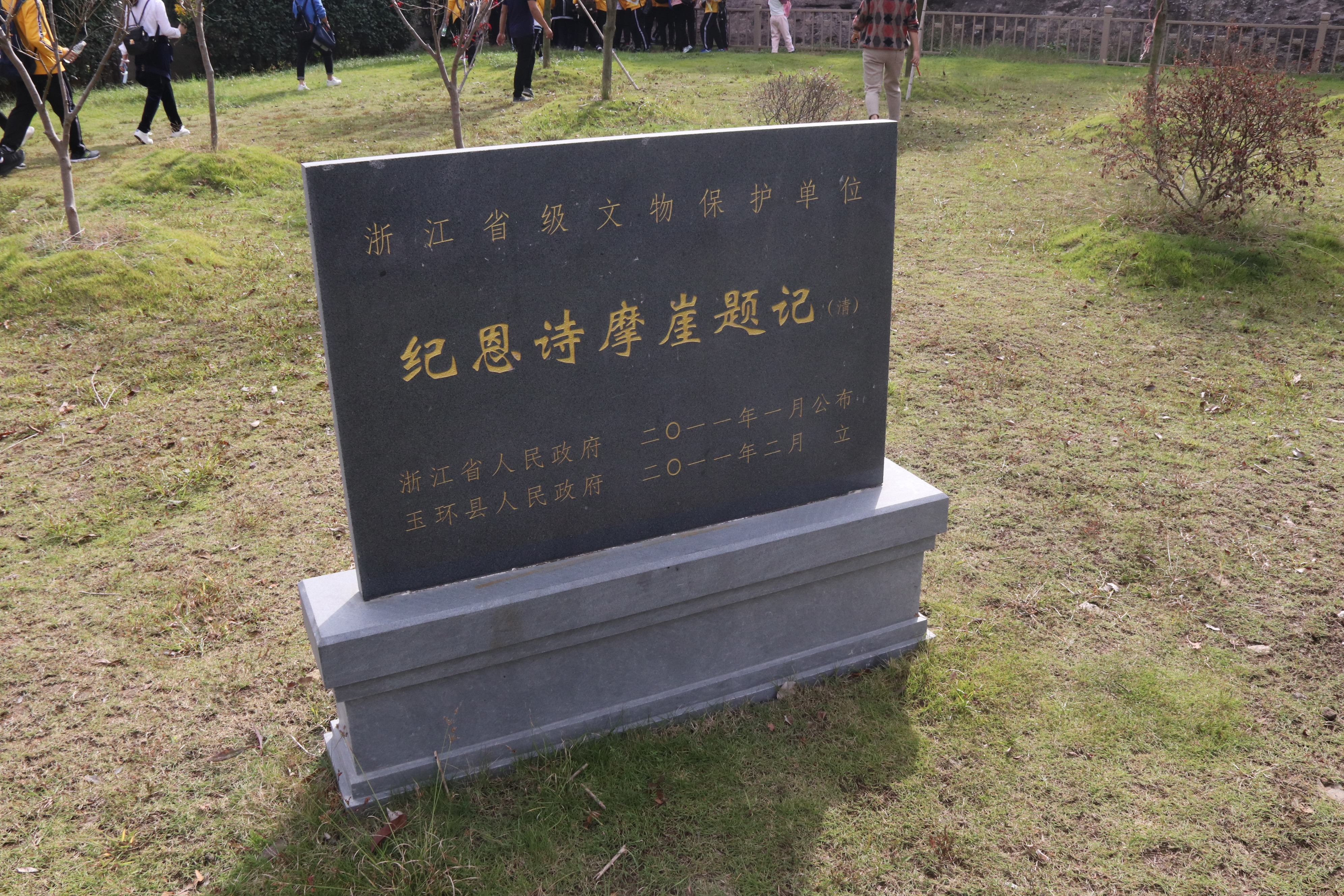 "Ji'enshi Moyatiji"(English:A poem carved on the cliff to thank the grace) in Yuhuan City, Zhejiang, China.